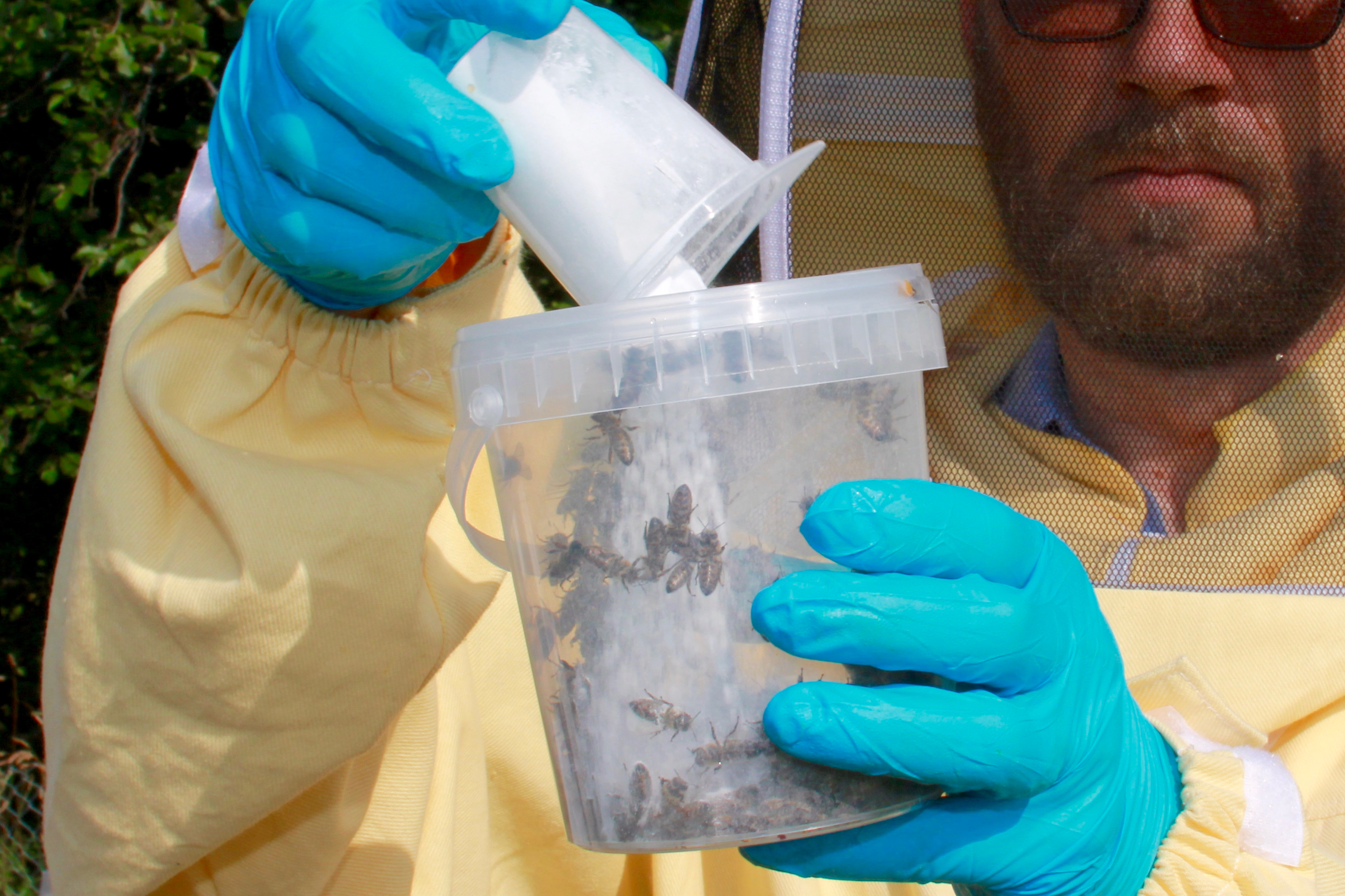 The Powdered Sugar Sampling to monitor Varroa mite populations in Honey Bee colonies is simply quickly and accurately.